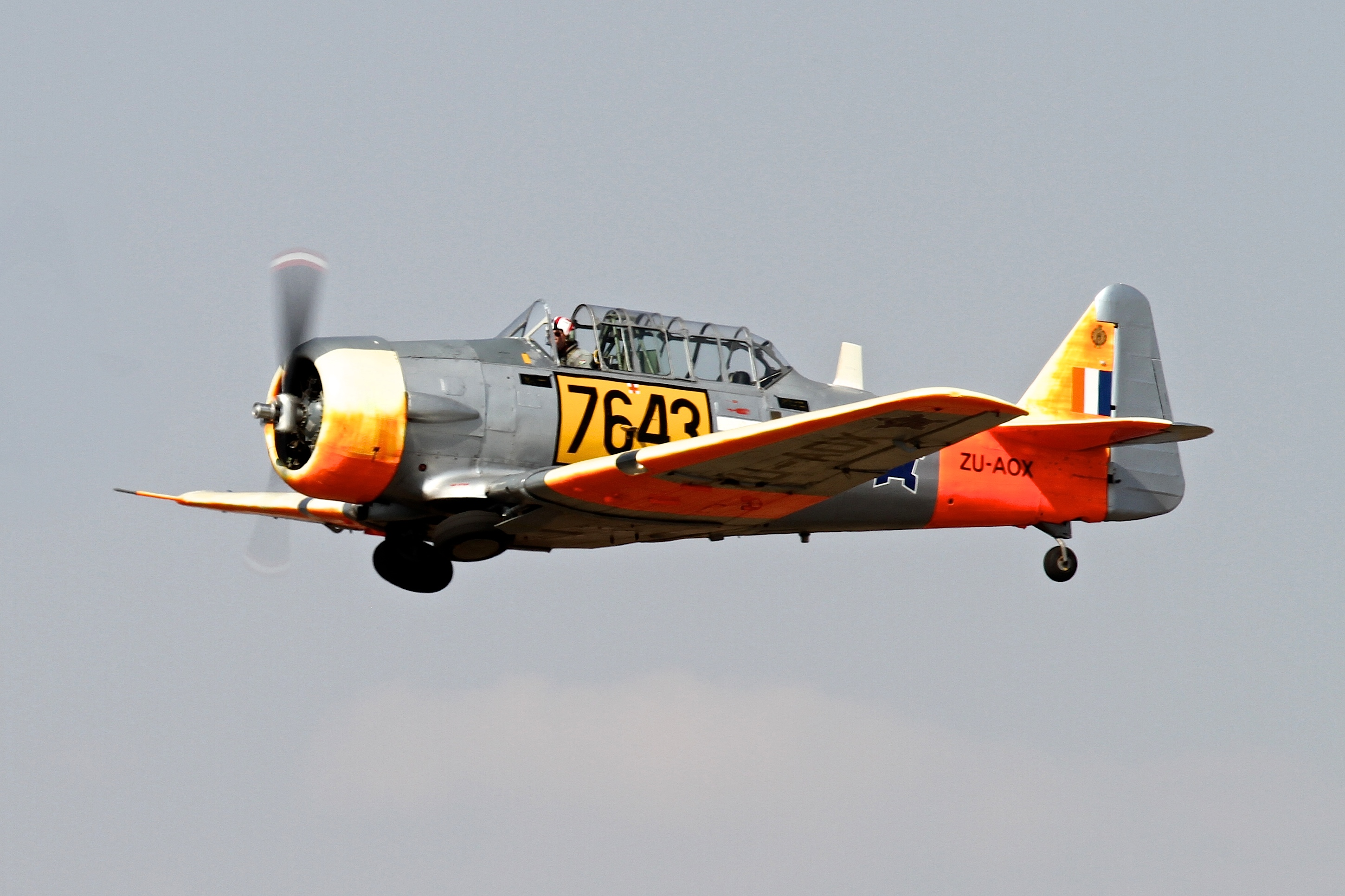 Harvard Aircraft, South African Air Force Museum, Pretoria. South African Air Force numbers: 7024, 7028, 2059, 7152, 7156, 7166, 7306, 7592, 7643 and 7661 This media shows a South African Protected Site with SAHRA file reference 9/2/258/0136.